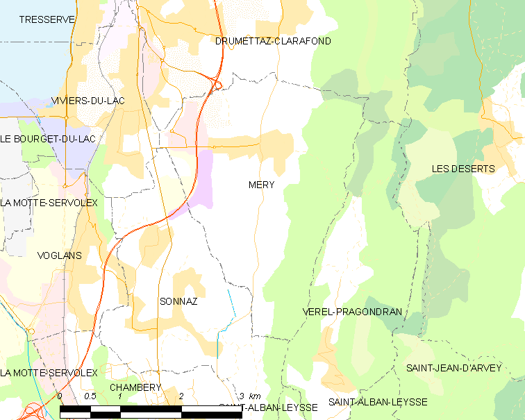 Map of French municipality